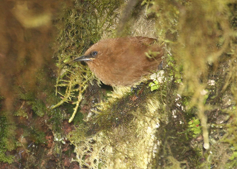 Rufous Wren (Cinnycerthia unirufa). Yanacocha Reserve, Ecuador. 3/8/2007